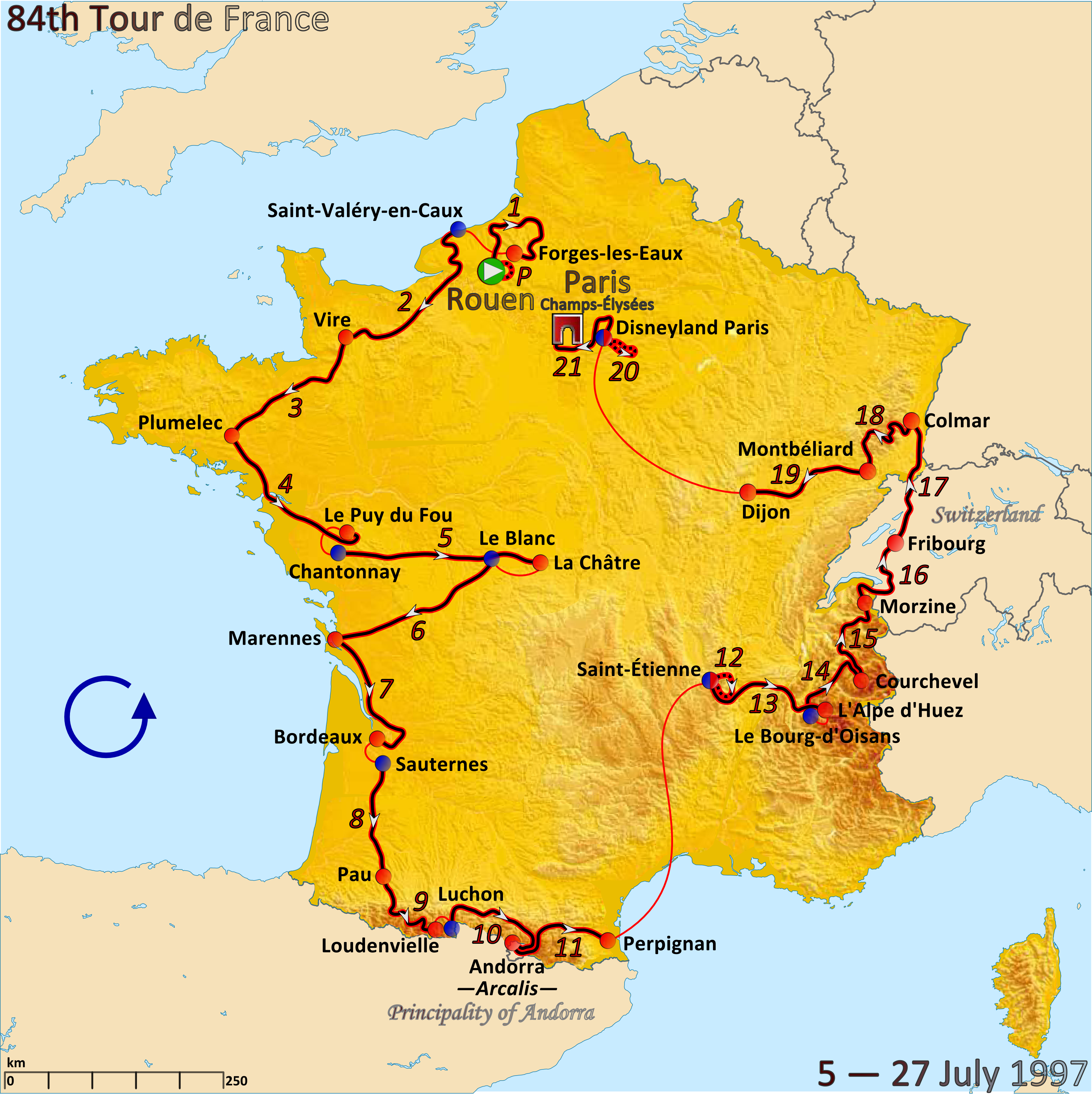 Map created in Inkscape of the 1997 Tour de France